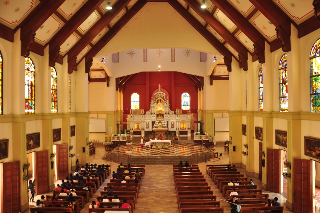 Peñafrancia Basilica Minore